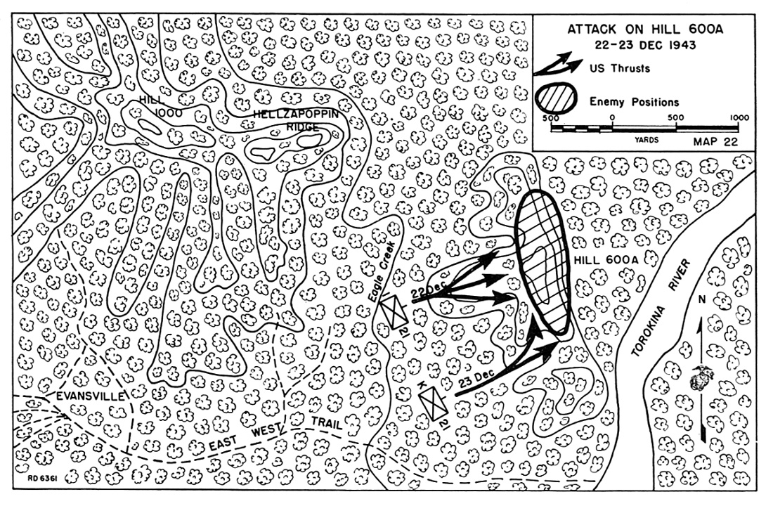 Map depicting the attack by elements of the 21st Marine Regiment on Japanese positions on Hill 600A on Bougainville, 22/23 December 1943